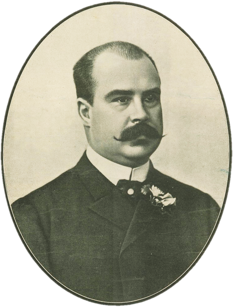 Emídio Navarro (1844-1905), Portuguese politician affiliated with the Progressive Party.